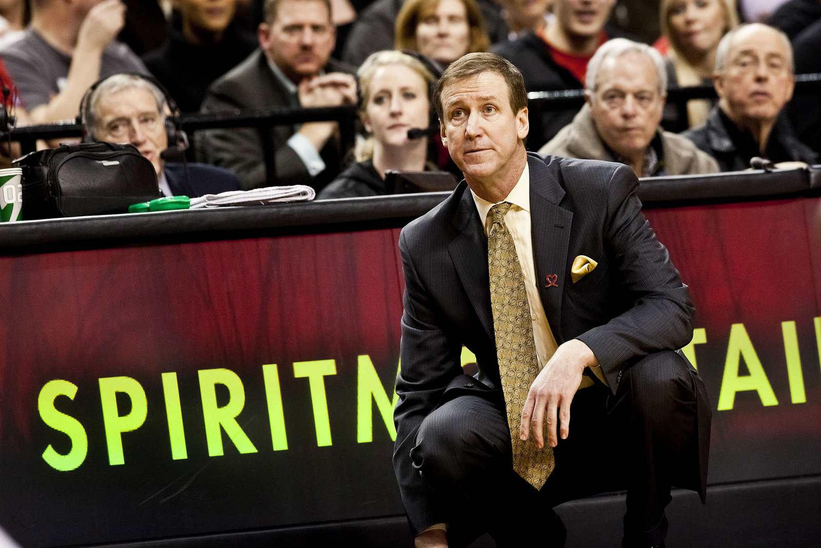 Terry Stotts, the current head coach for the Portland Trail Blazers of the NBA.